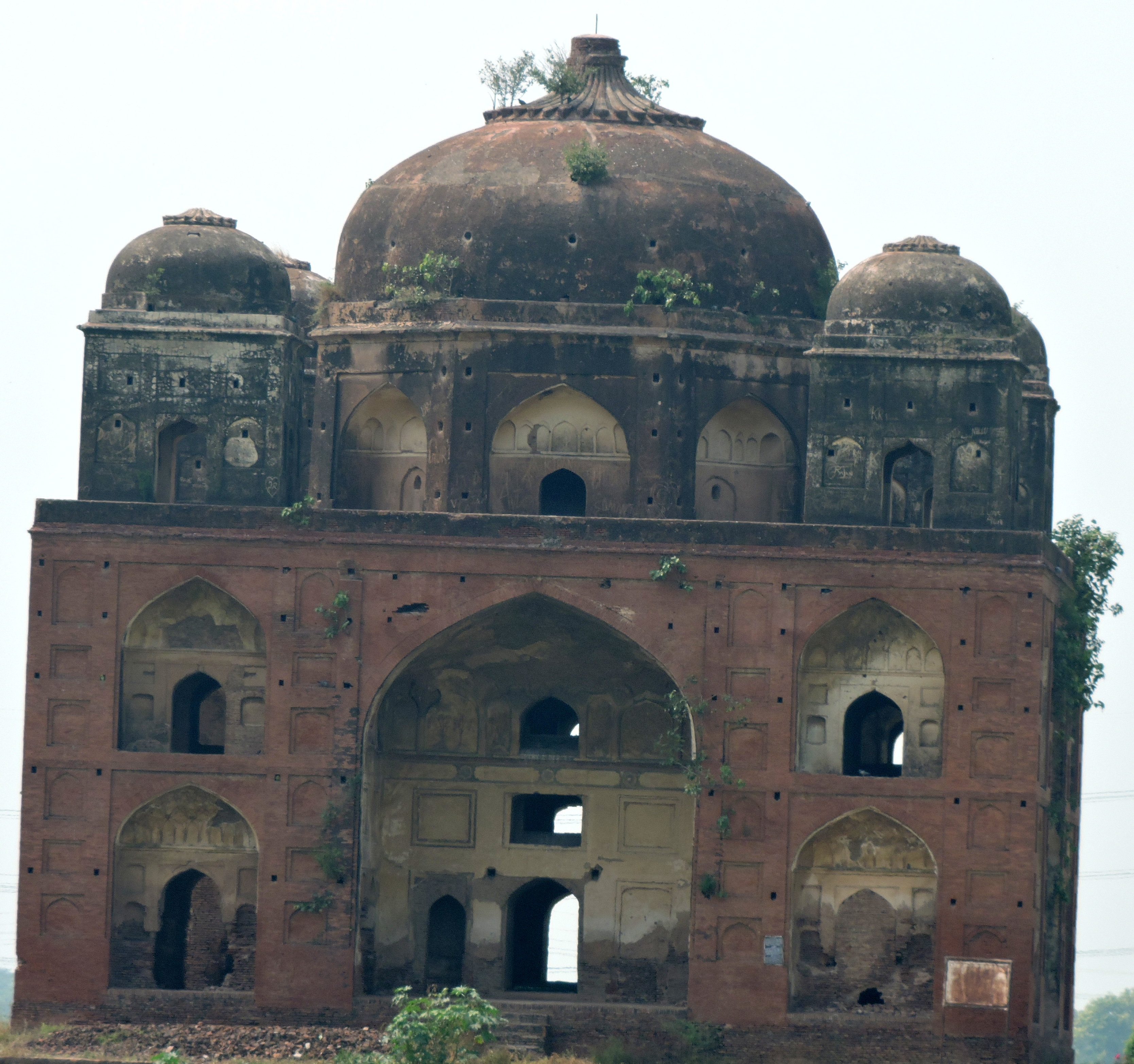 Tomb of Shagird, vill Talania,Sirhind Fatehgarh Sahib, Punjab